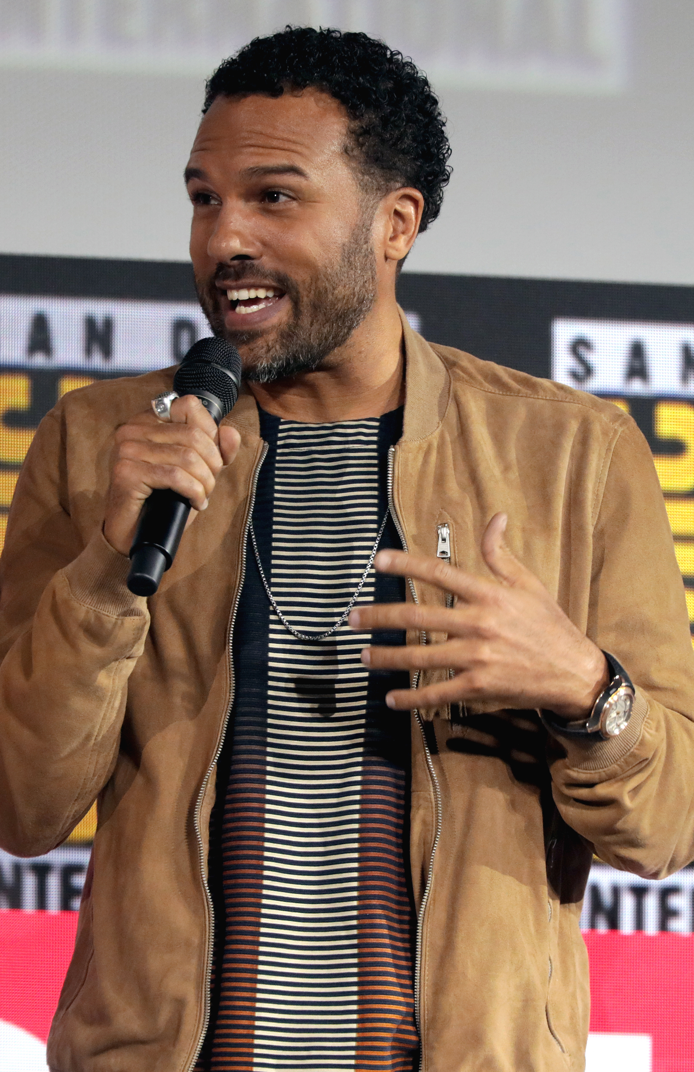 O. T. Fagbenle speaking at the 2019 San Diego Comic-Con International in San Diego, California.